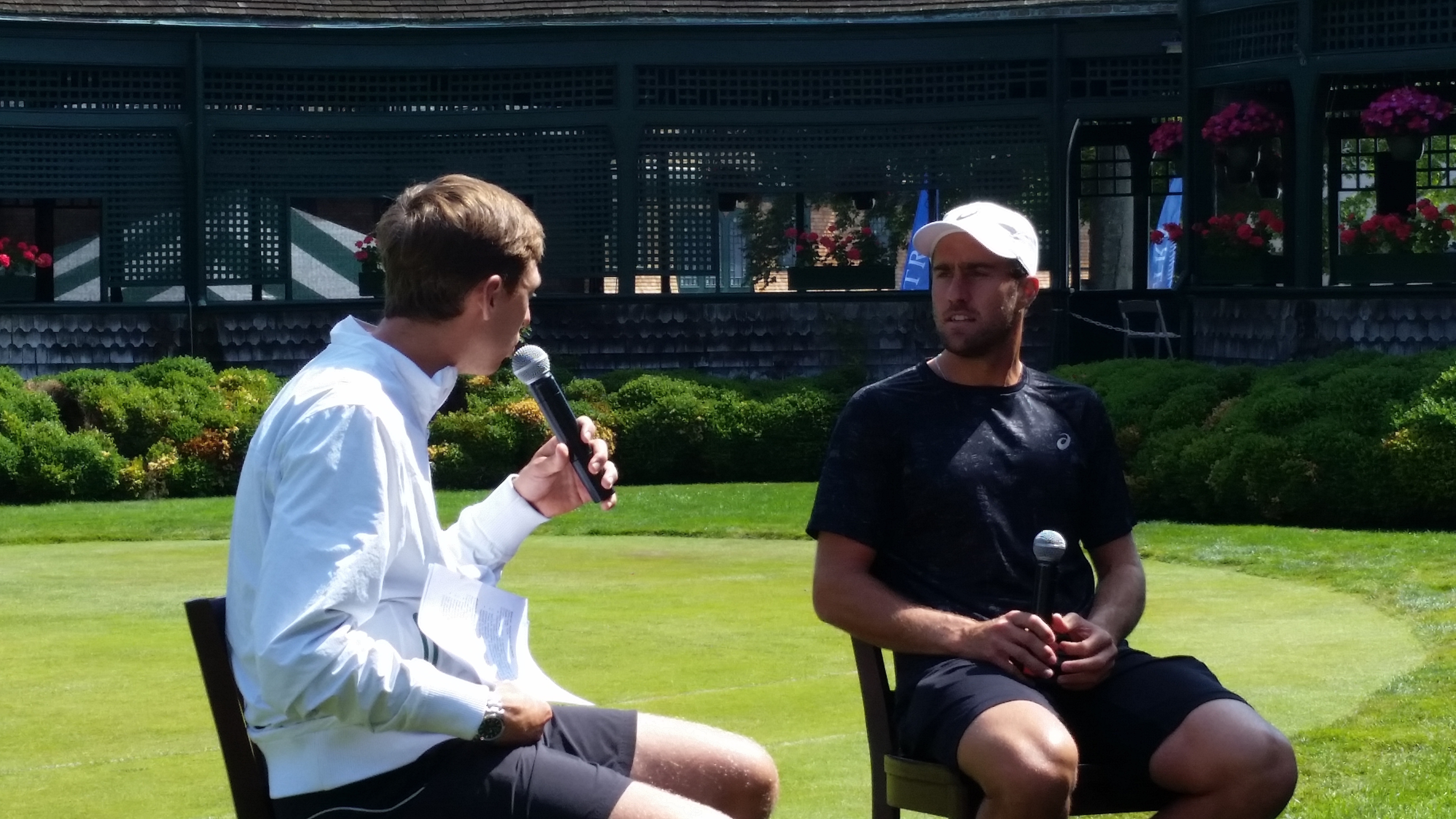 Steve Johnson interviewed by Eric Butorac at Hall of Fame Tennis Championships